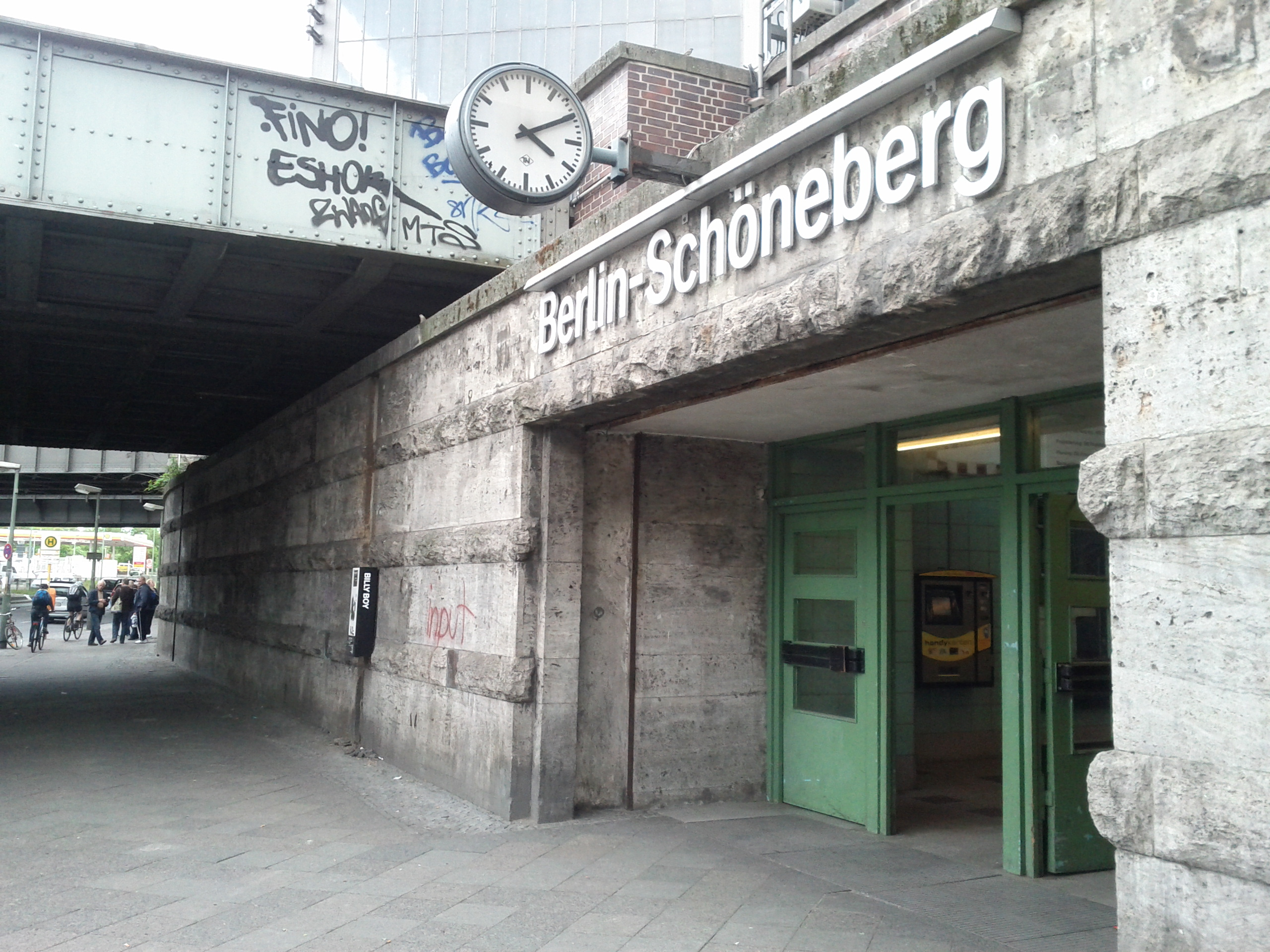 Entrance to the station from the Dominicusstraße.